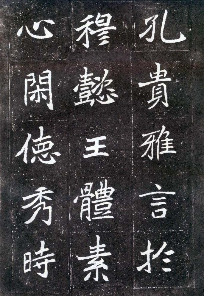 Wei monument "Yuan Wai epitaph" local rubbings.